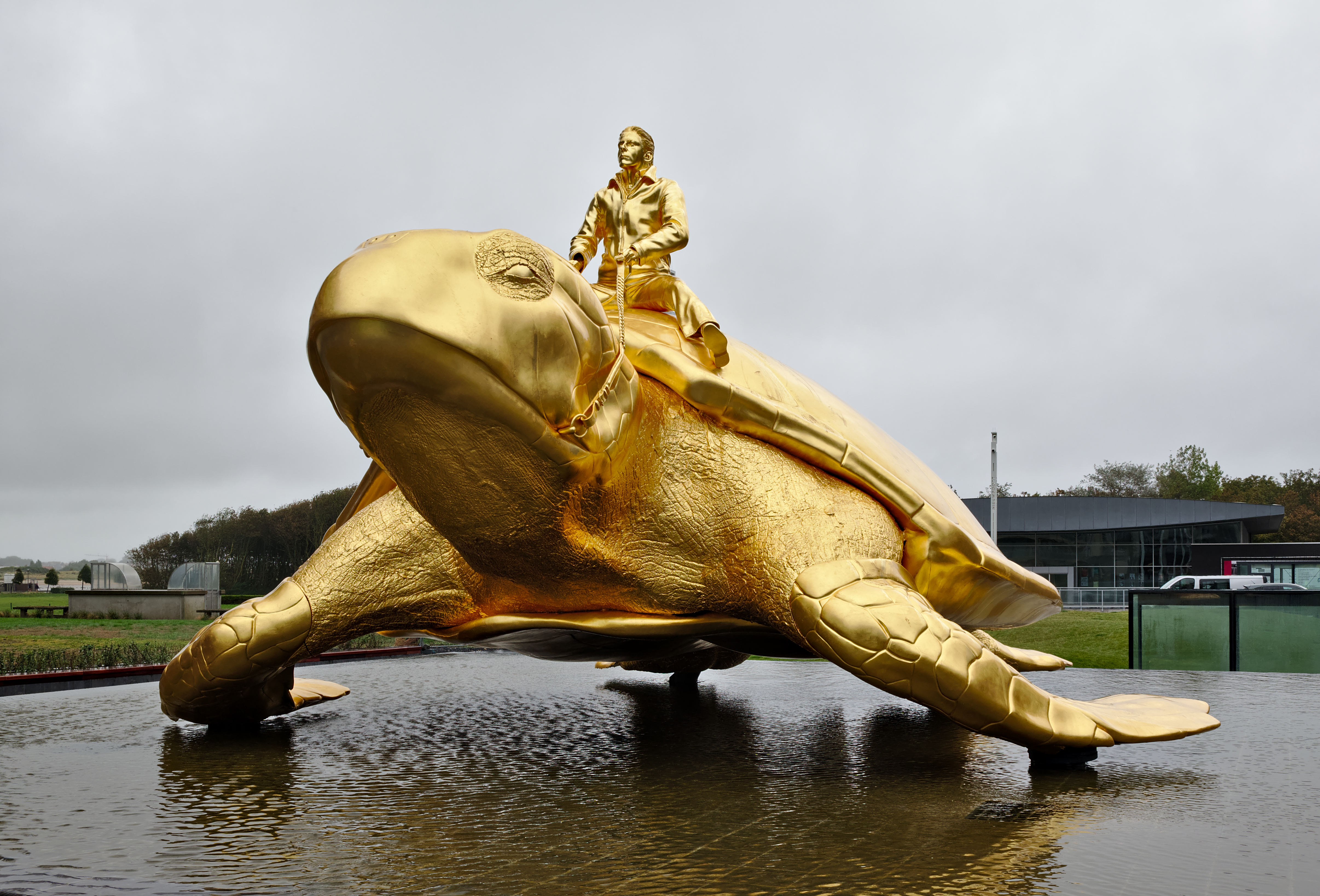 Searching for Utopia statue by Jan Fabre in Nieuwpoort, Belgium This photo of immovable heritage has been taken in the Flemish Region